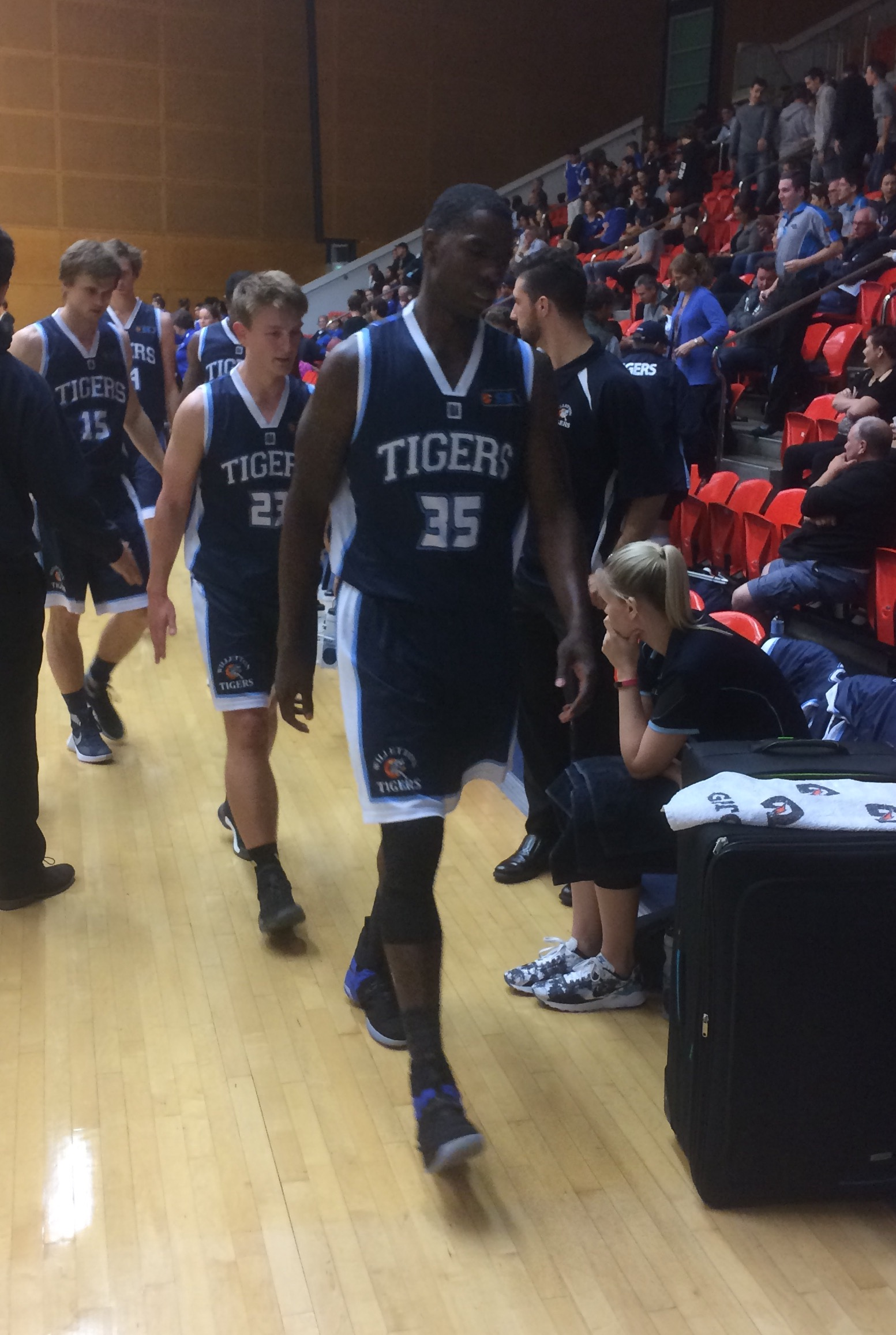 Ray Turner with the Willetton Tigers